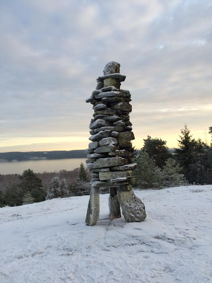 borgasgubben